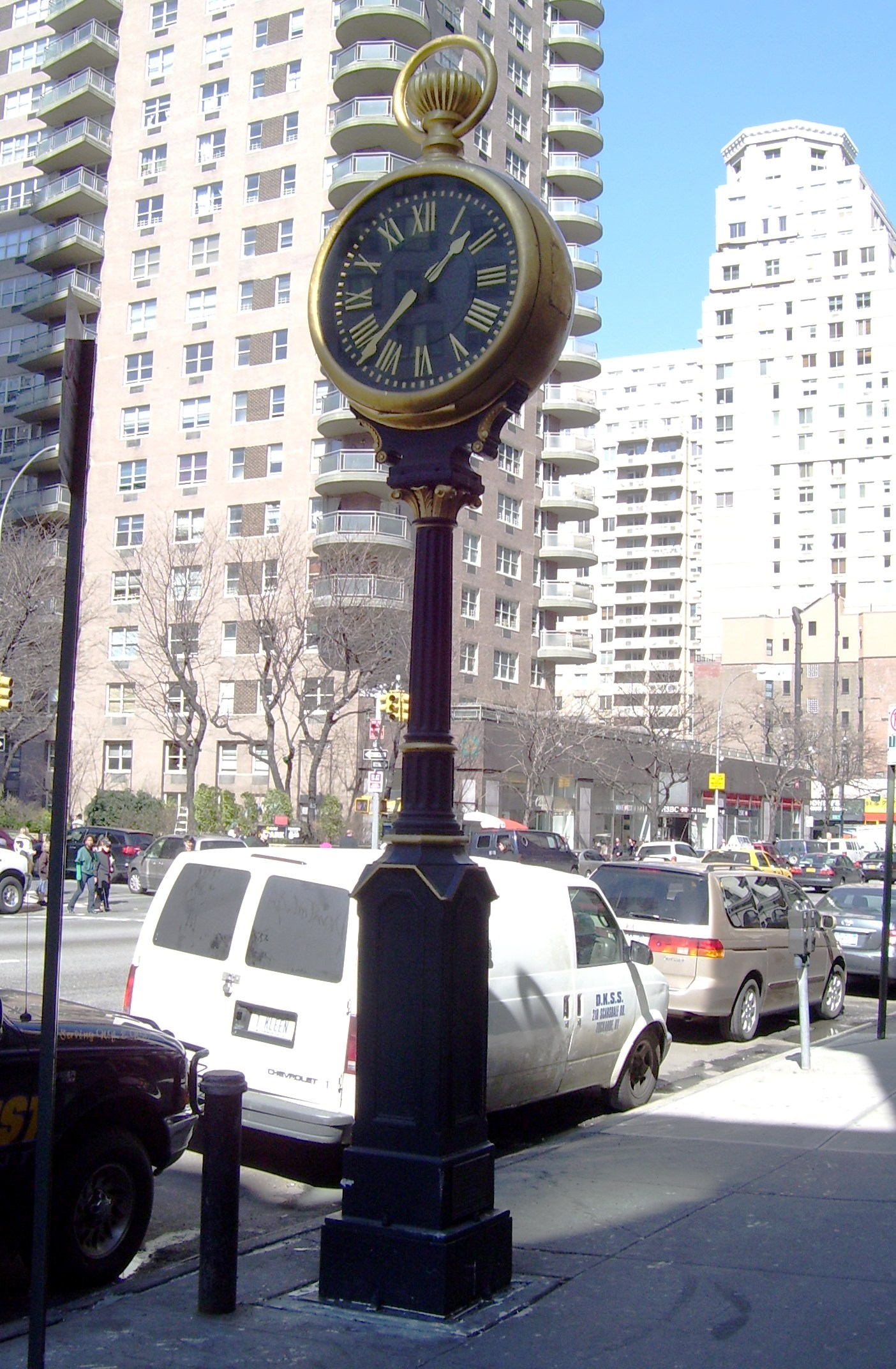 Sidewalk clock at 1501 Third Avenue between East 84th and 85th Streets in the Yorkville neighborhood of Manhattan, New York City.